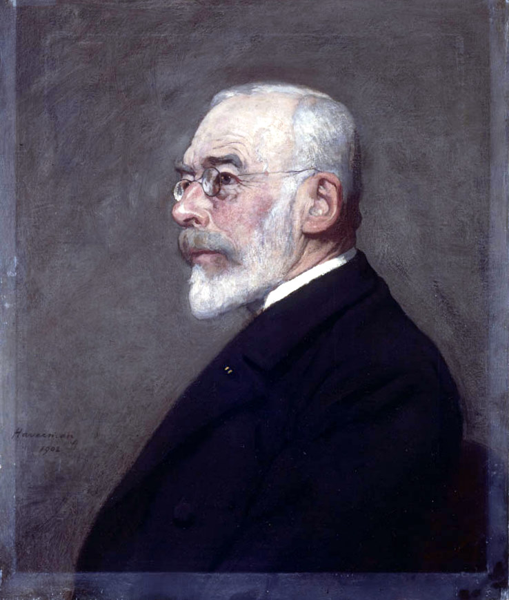 Bernard van der Wijck (1836-1925)